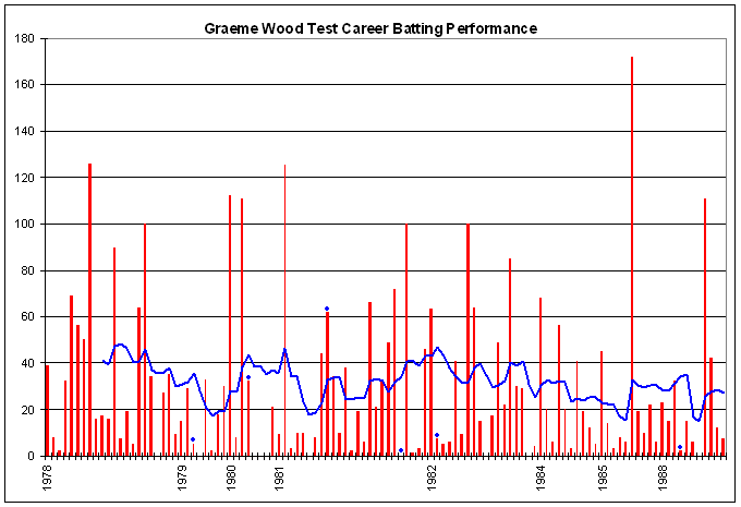 Test batting chart of Graeme Wood. Red columns are the runs in the innings. Blue dots indicate not outs. Blue line is average in the last ten innings. Thanks to Raven4x4x for providing the template.